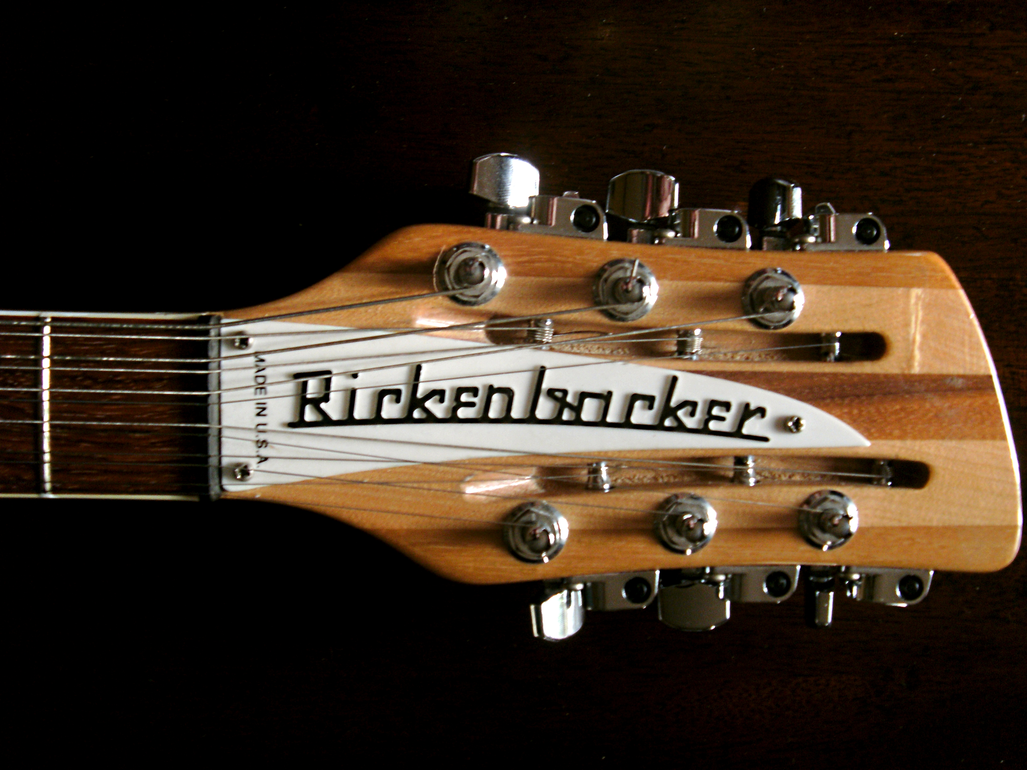 The distinct slotted headstock of a 12-string Rickenbacker